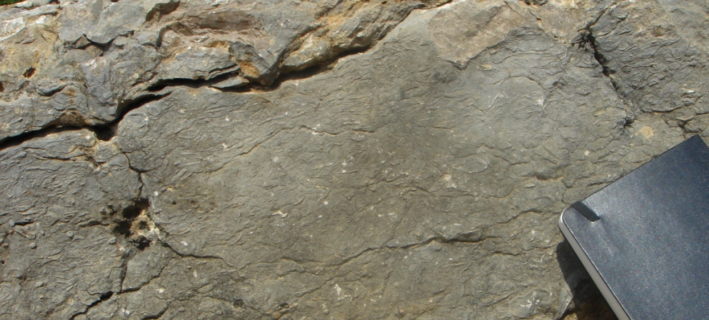 Oysters in the Tremp Formation. courtesy: M. Wiemer